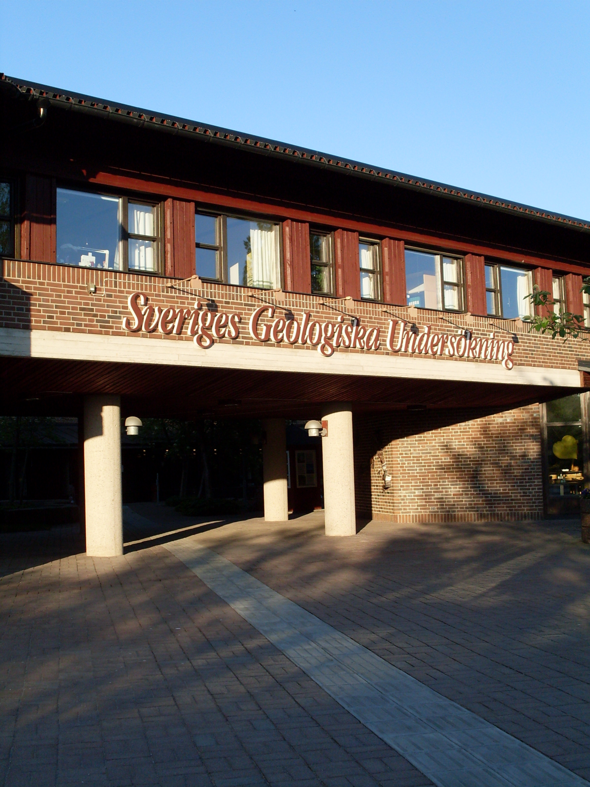 Sveriges Geologiska Undersökning / Swedish Geological Survey, Uppsala. Entrance.